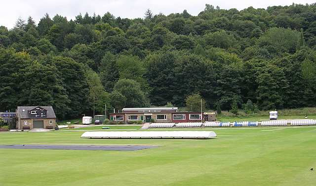 Todmorden Cricket Club - Burnley Road